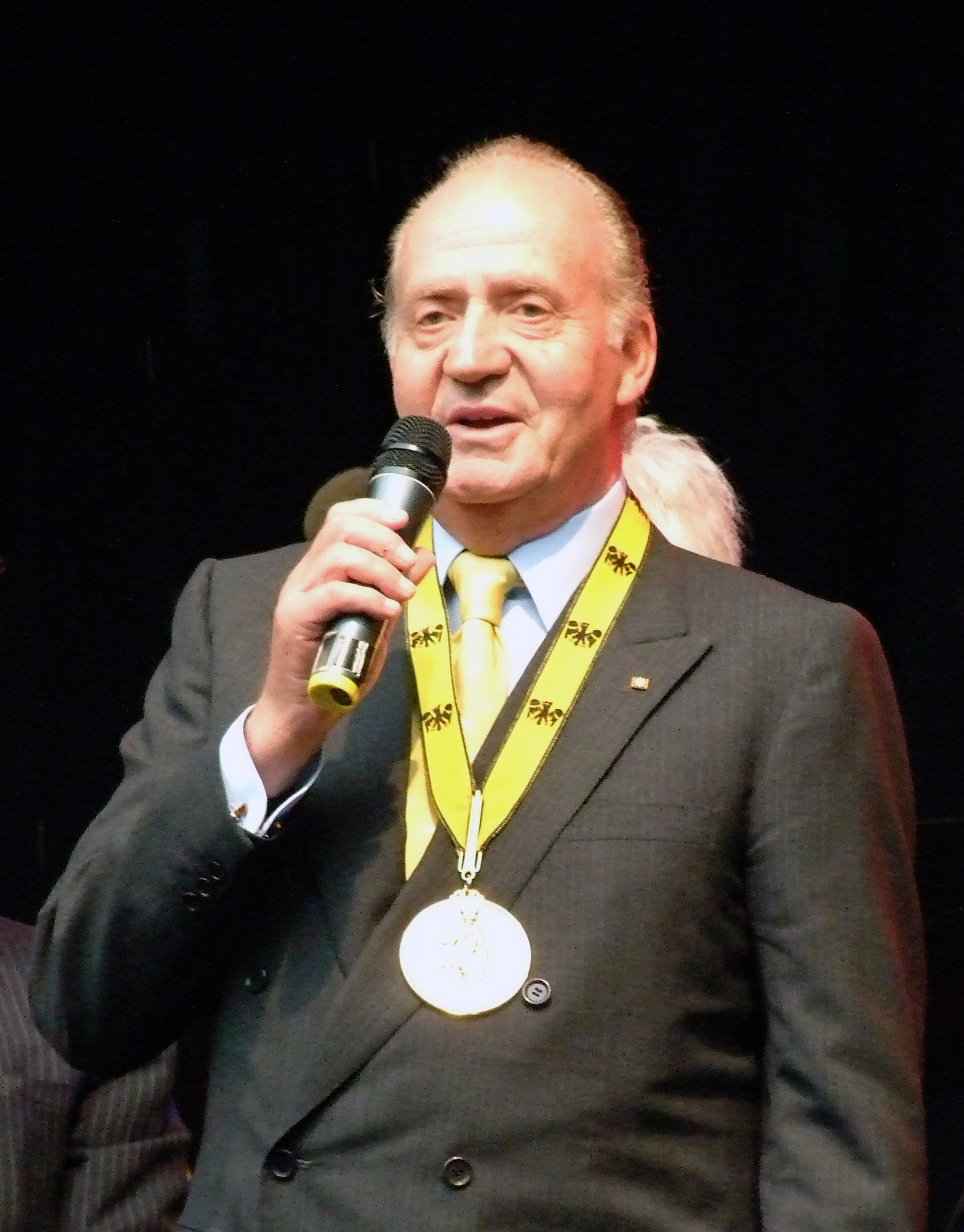 Juan_Carlos_I_of_Spain, Karlspreis 2008